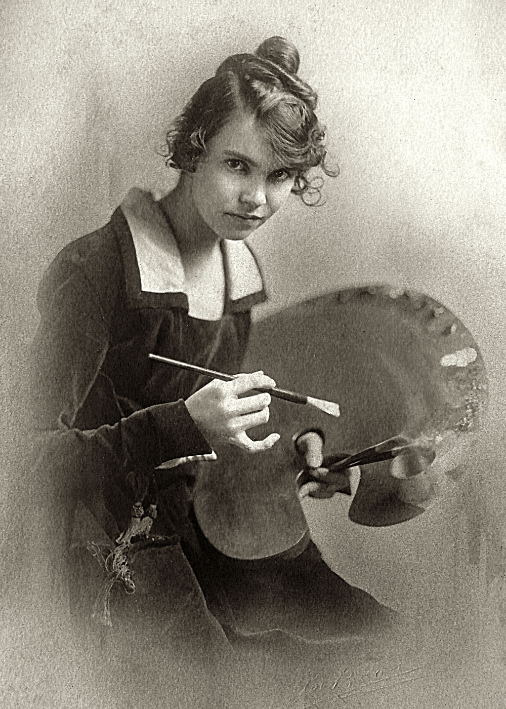 Portrait of the artist Wanda Gág